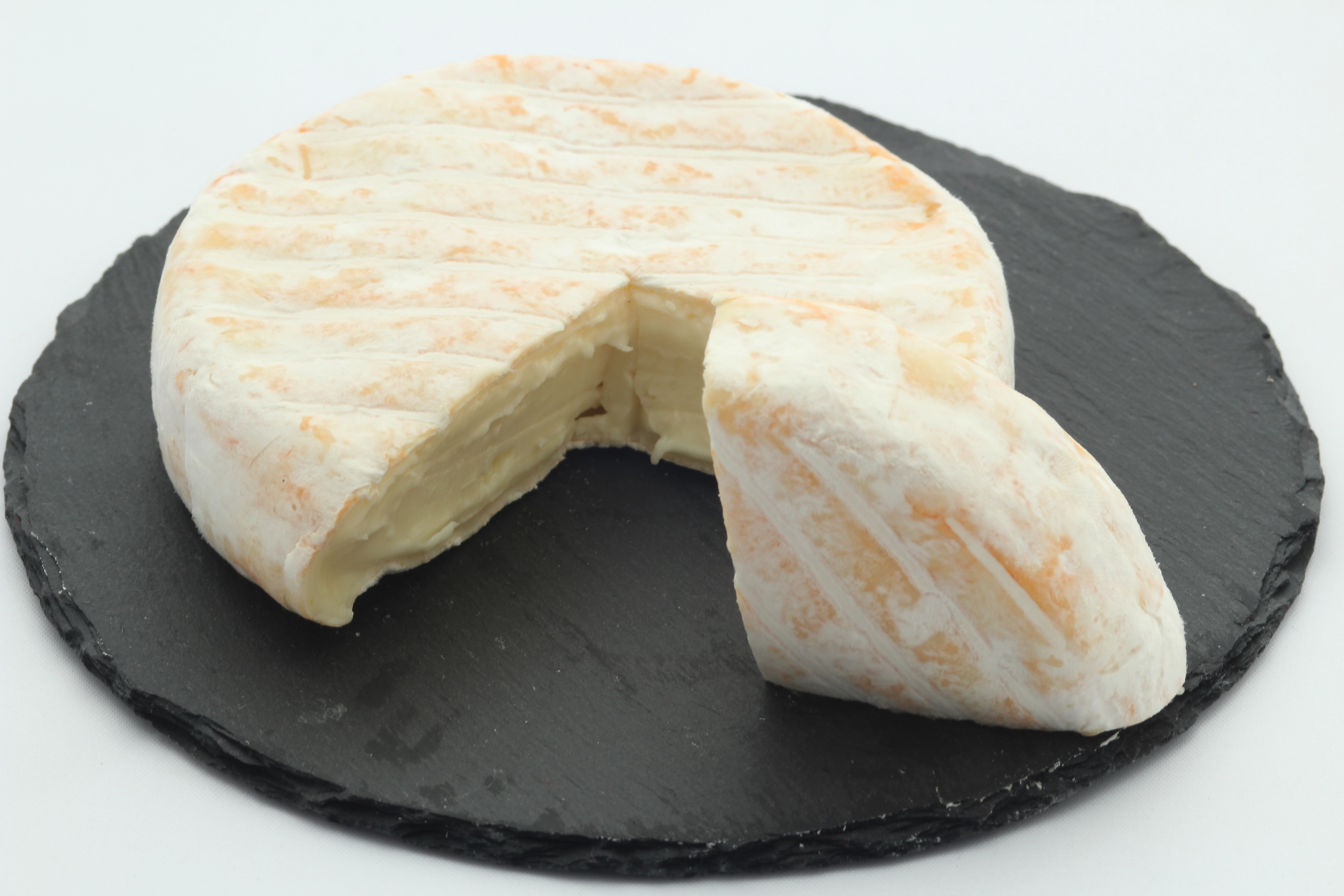 Reblochon suisse - Swiss soft cheese, from pasteurized cow's milk.